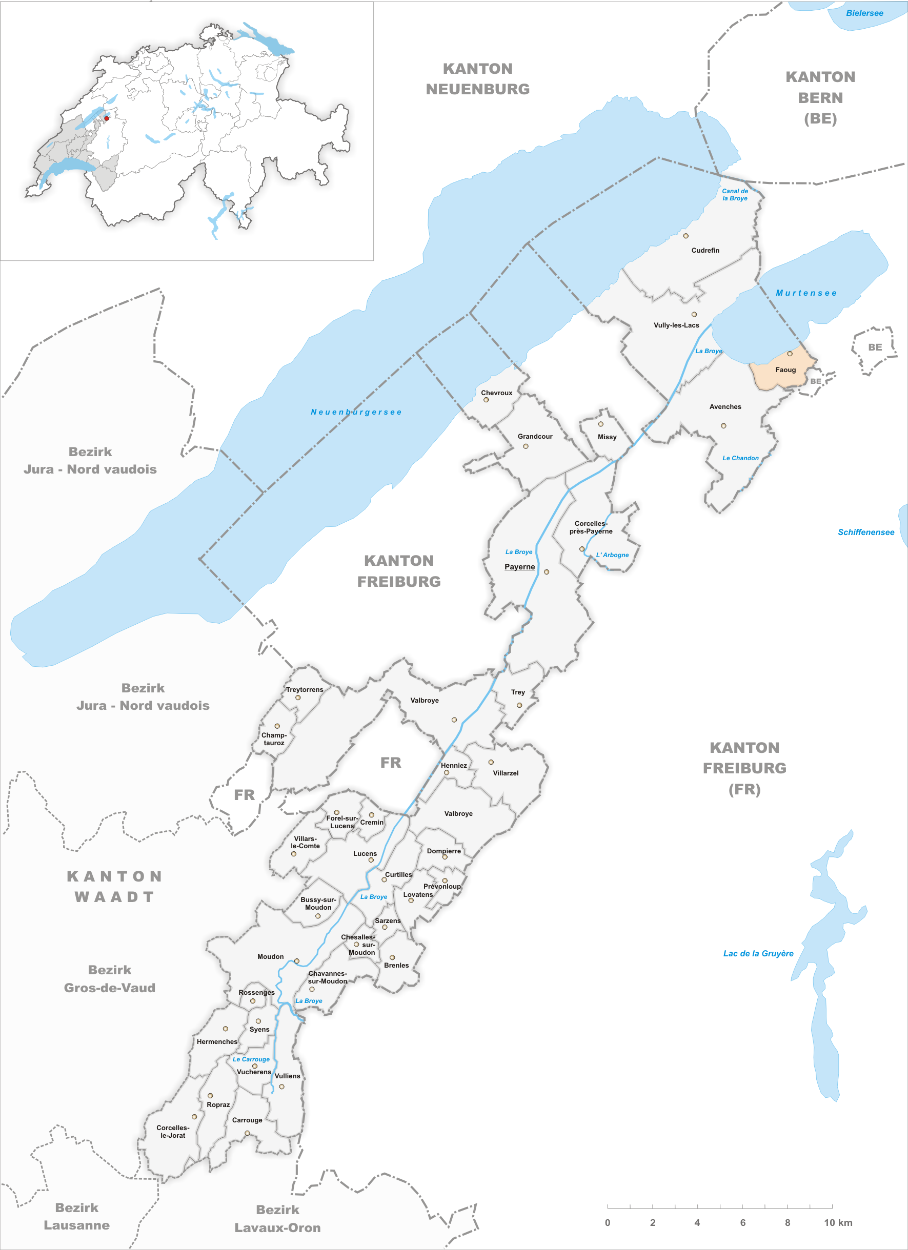 Municipality Faoug